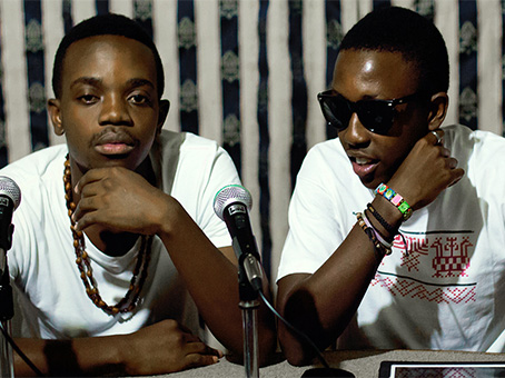 Home Grown African interviewed by Joy FM Radio in Blantyre, Malawi